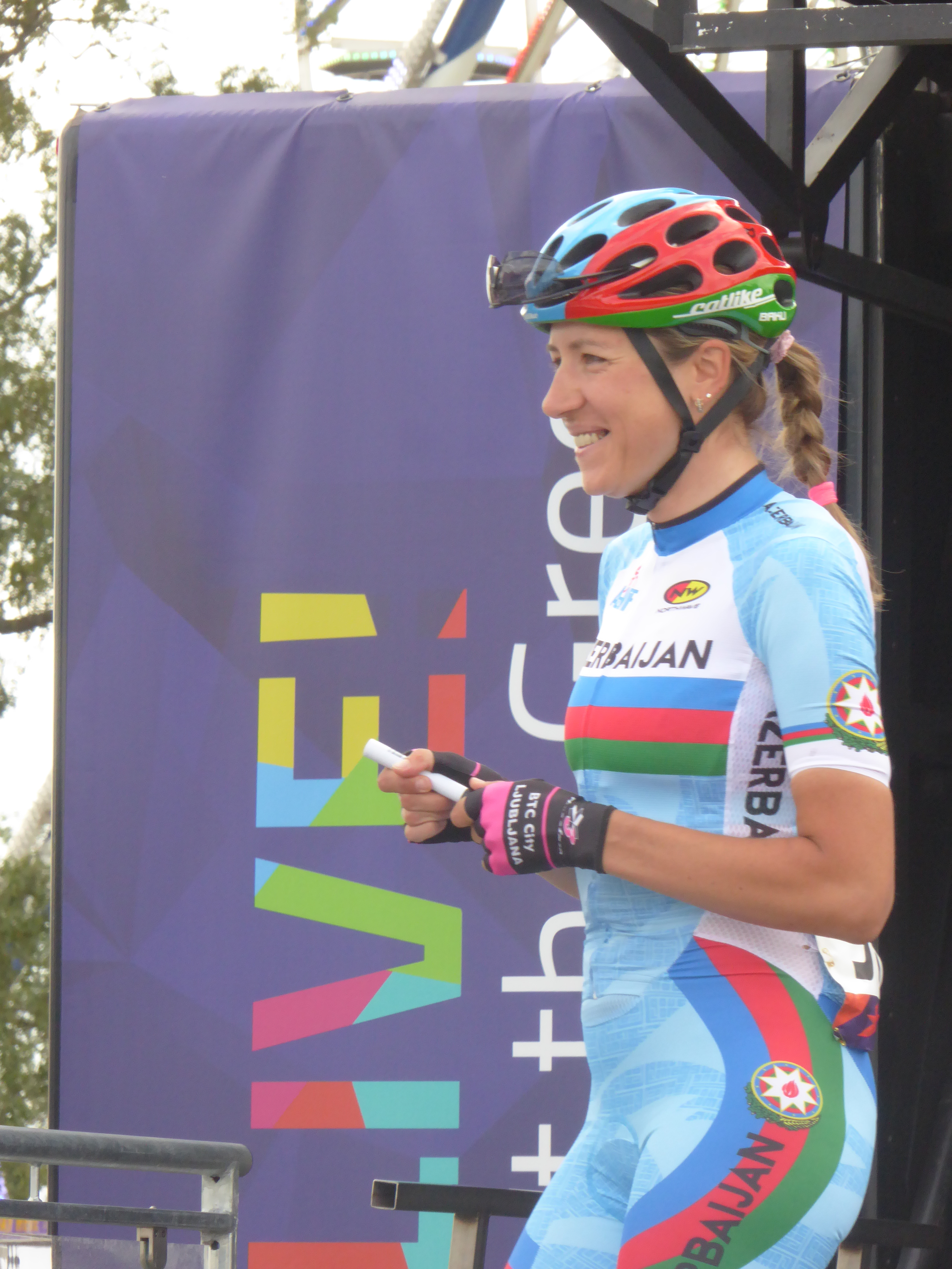 Olena Pavlukhina (Azerbaijan), prior to the women's road race at the 2018 UEC European Road Cycling Championships in Glasgow. Pavlukhina's results from the race were later annulled due to her four-year doping suspension in January 2019.